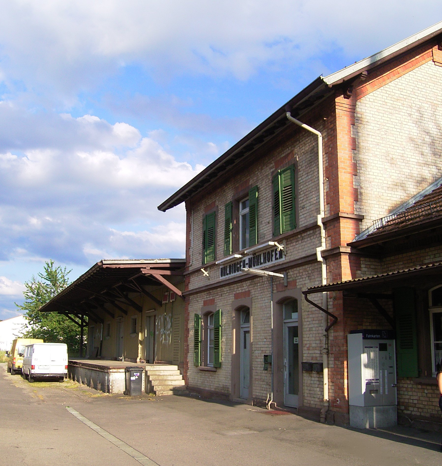 A small trainstation in Unter-Uhldingen, Germany